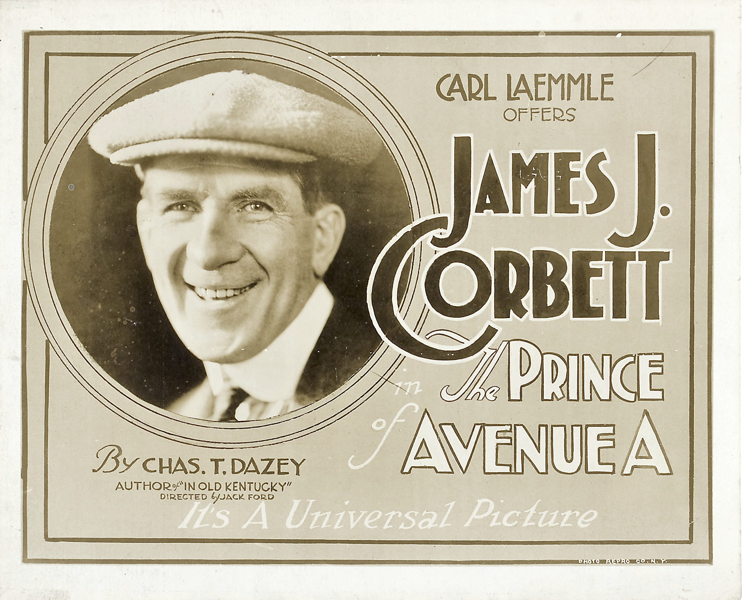 The Prince of Avenue A is a 1920 American drama film directed by John Ford. This is a contemporary lobby card for the film.